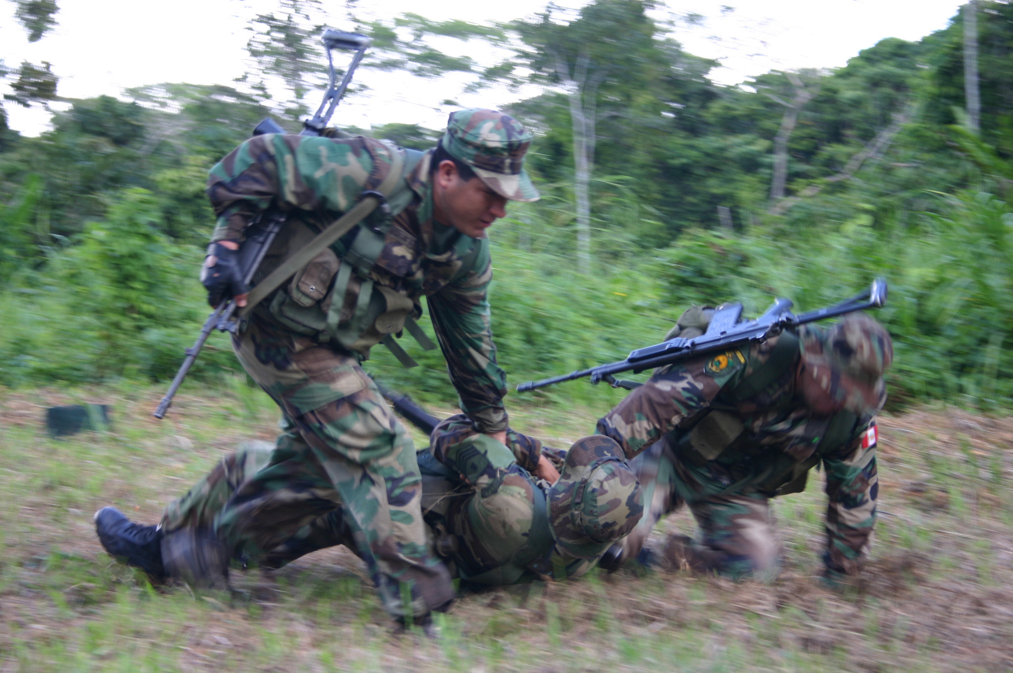 IQUITOS, Peru - Peruvian Marines break contact following a simulated ambush by an enemy sniper. Peruvian, US and Colombian Marines are jointly training in Iquitos survival and military tactics in the jungle.